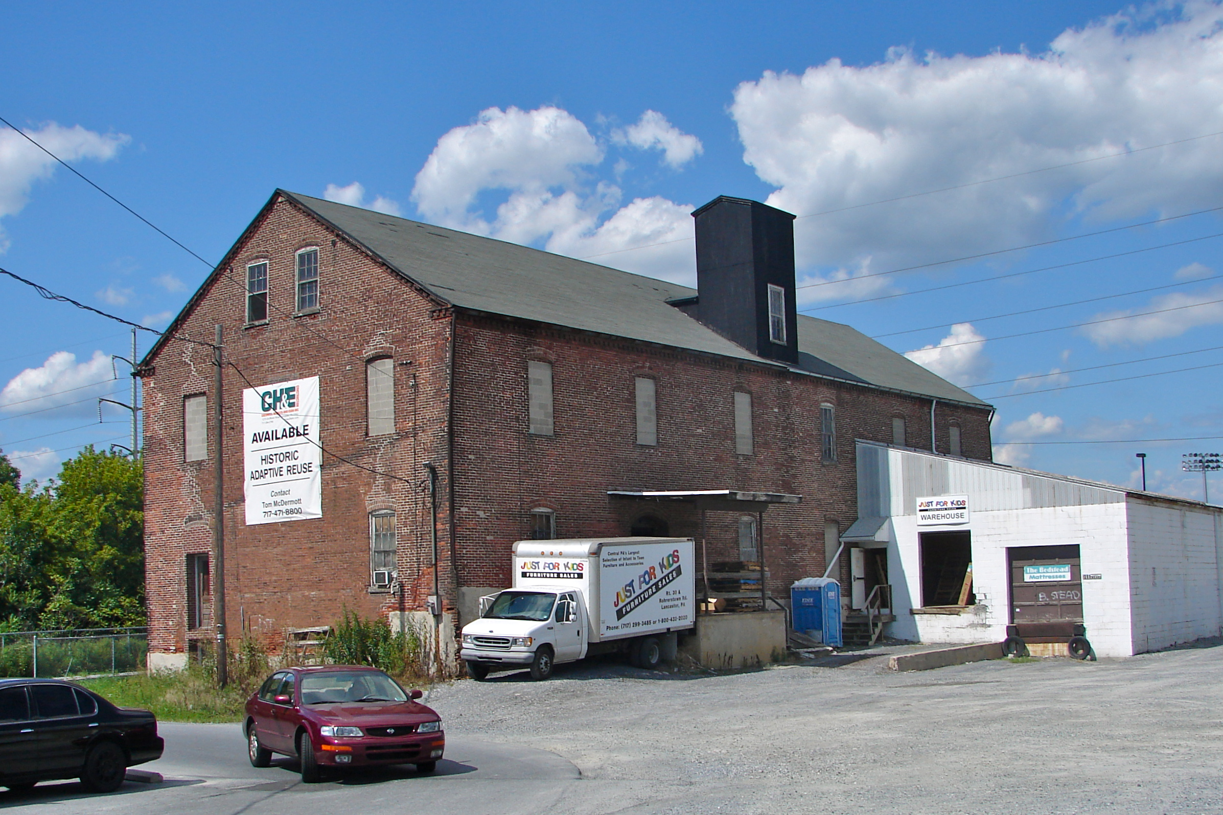 Henry B. Friedman Tobacco Warehouse on the NRHP since September 21, 1990. At 309–311 Harrisburg Avenue, rear, in the Stadium District (near the 3rd base line in fact), Lancaster, Pennsylvania. Part of the NRHP multiple submission for tobacco industry buildings in Lancaster